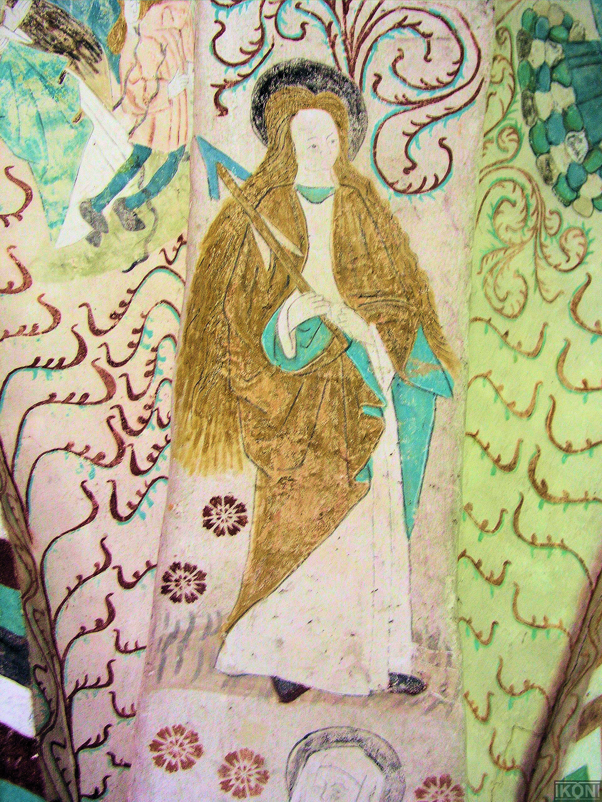 Saint Ursula in Hattula Church in Finland